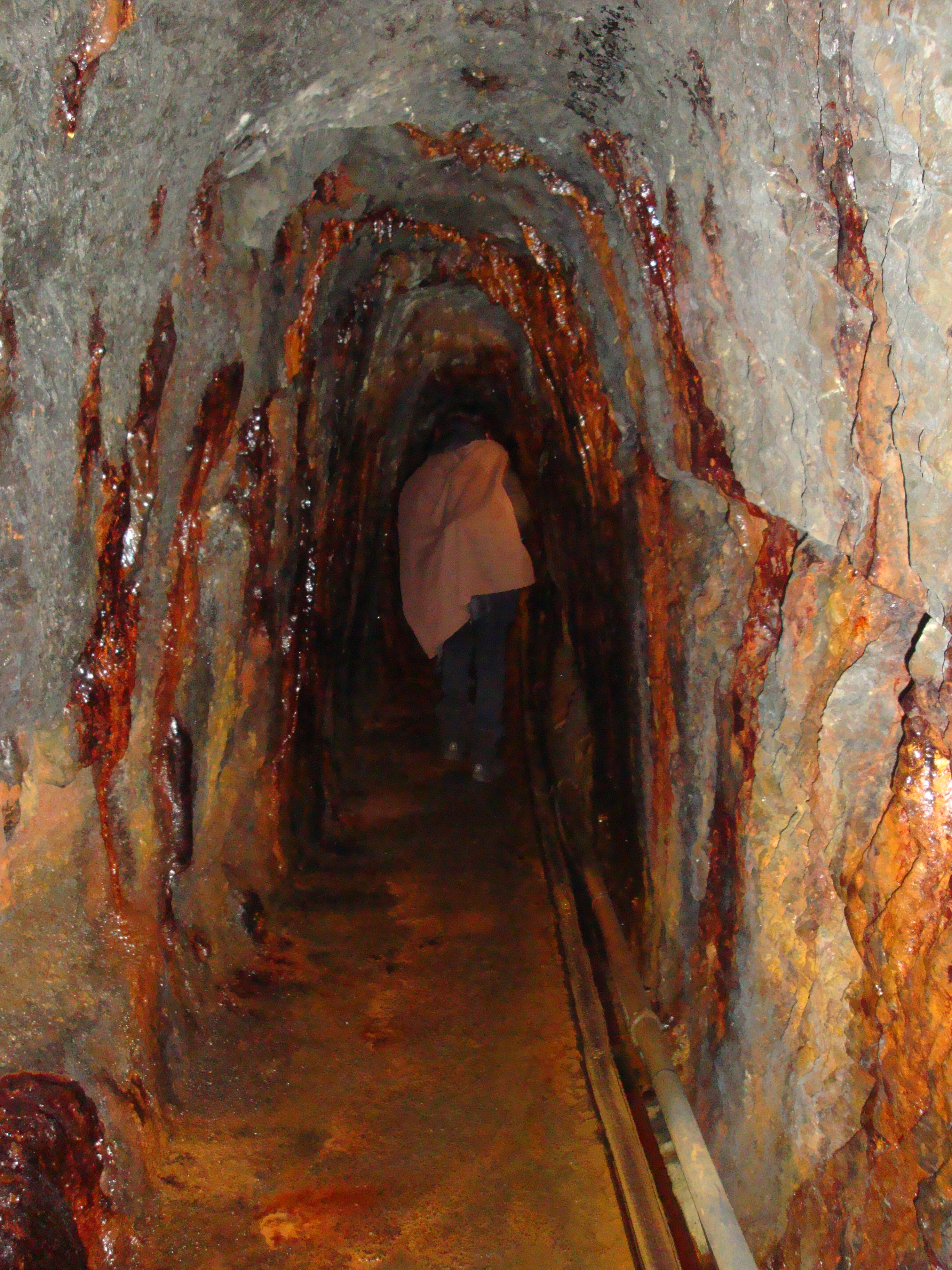 Old mineworkings at Saalfeld, Thuringia, Germany